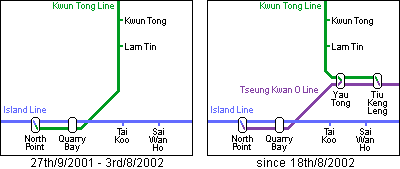 The aligment reformation of MTR, Hong Kong metro system.